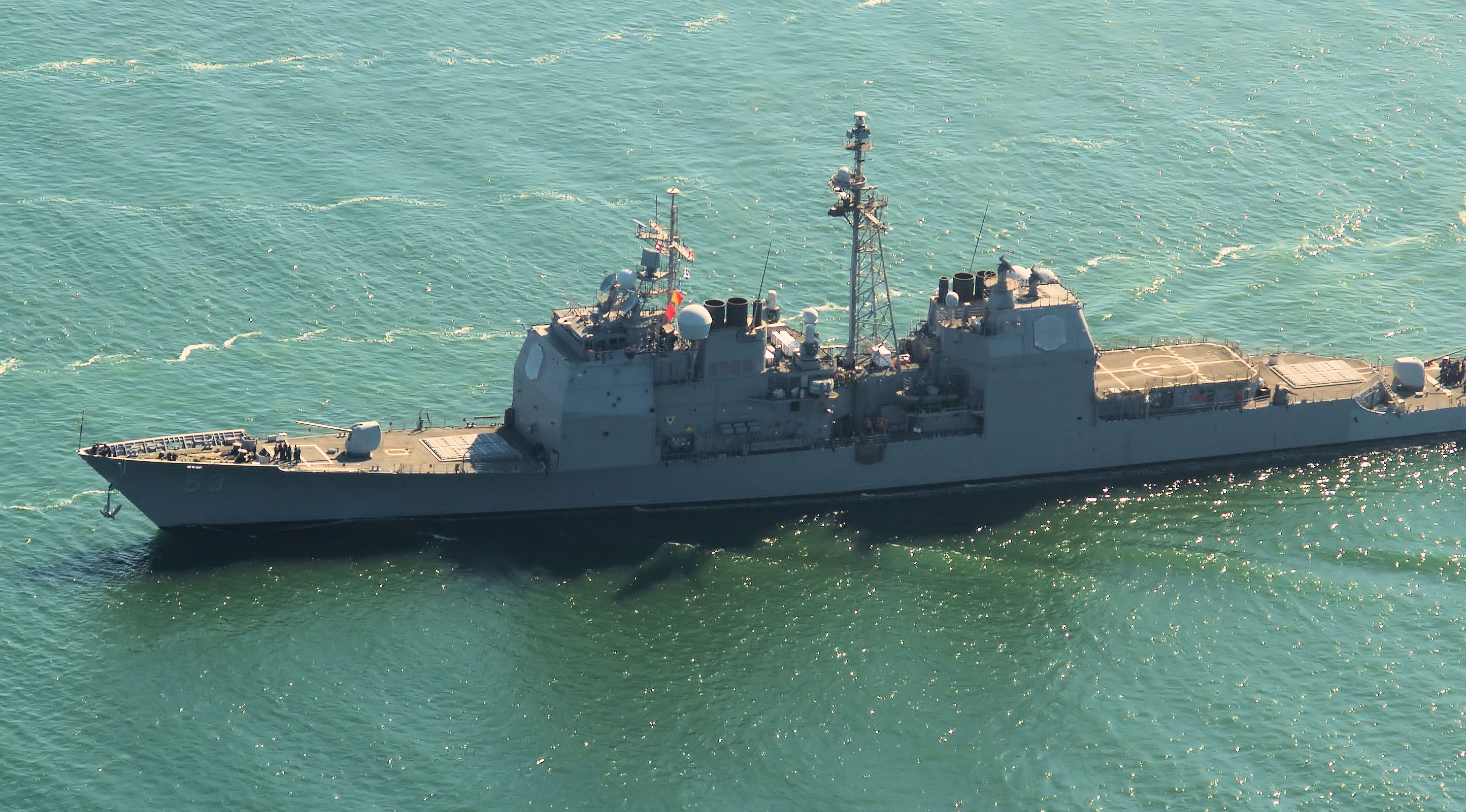 Photo of the USS Mobile Bay taken from a helicopter in San Diego Bay Please acknowledge "Phil Konstantin" as the creator of this photograph.